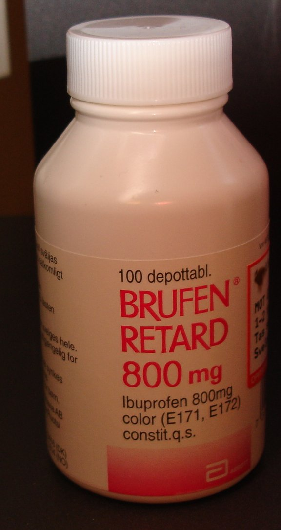 Ibuprofen Bottle